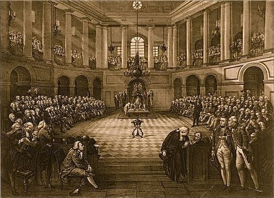 The Great Parliament of Ireland.